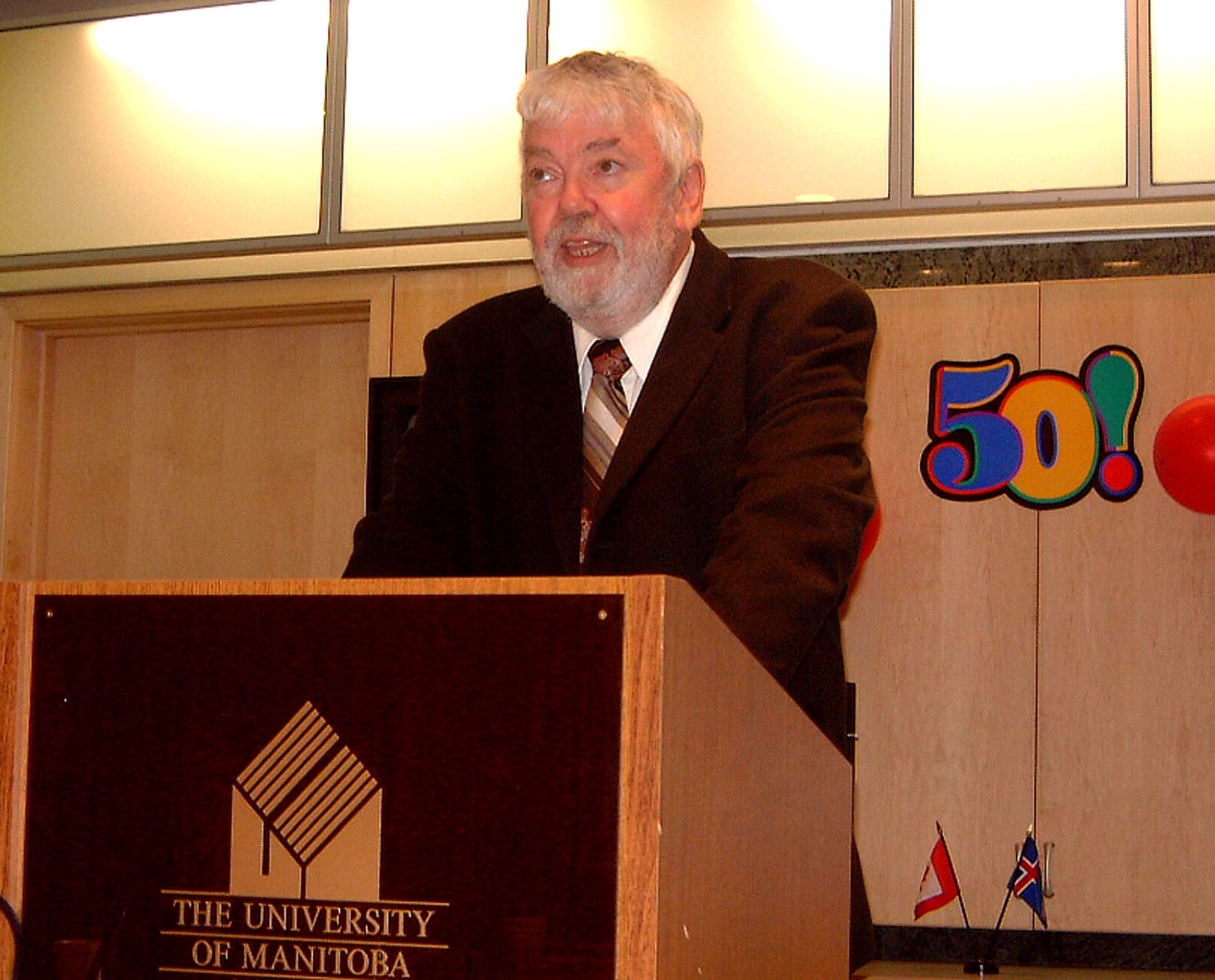 David Arnason giving a talk in Manitoba University